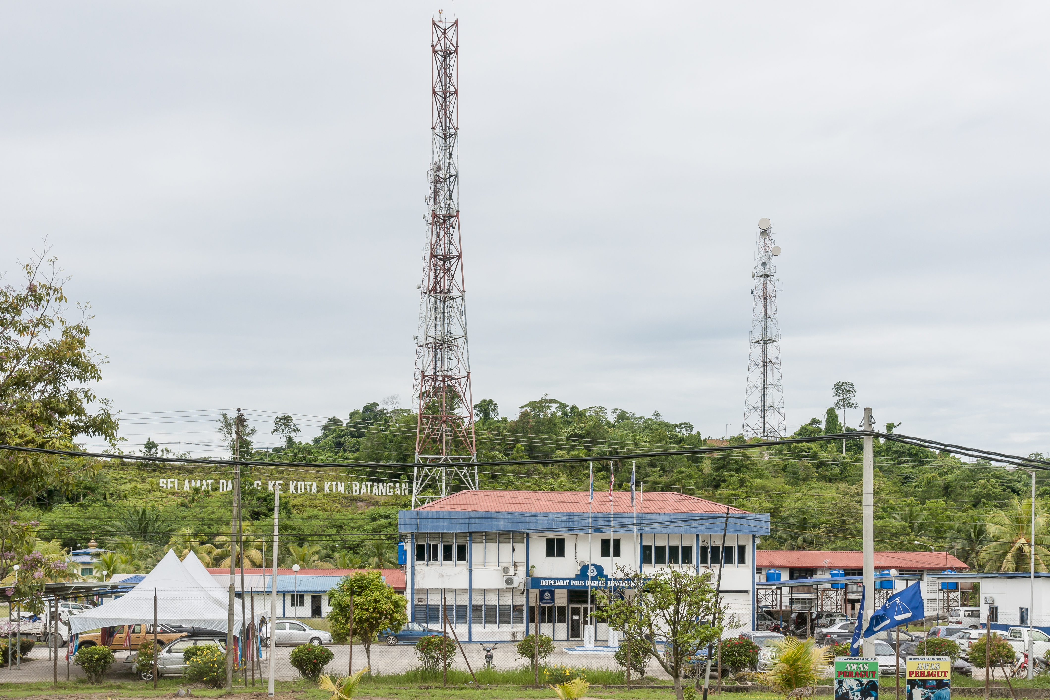 Kota Kinabatangan, Sabah: Kinabatangan District Police Headquarters (Ibu Pejabat Polis Daerah Kinabatangan)